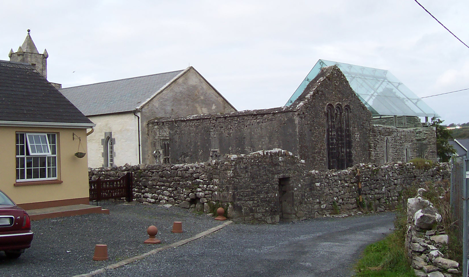 Photo of the ruins of Kilfenora Cathedral, taken by Srleffler in October 2006.